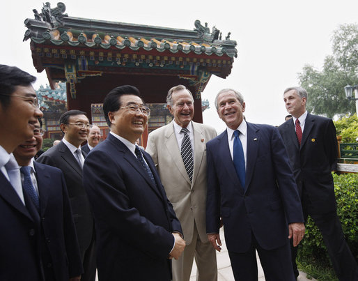 President George W. Bush is joined by his father, former President George H. W. Bush, during their visit with China's President Hu Jintao Sunday, Aug. 10, 2008, at Zhongnanhai, the Chinese leaders compound in Beijing.